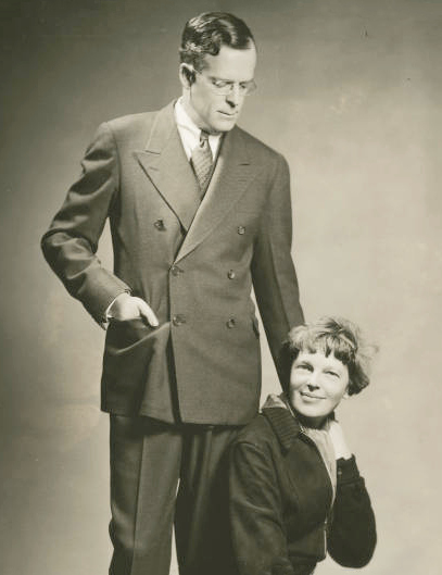 Portrait of NY publicist George Palmer Putnam and his wife, Amelia Earhart, c. 1930s in the Purdue University archives